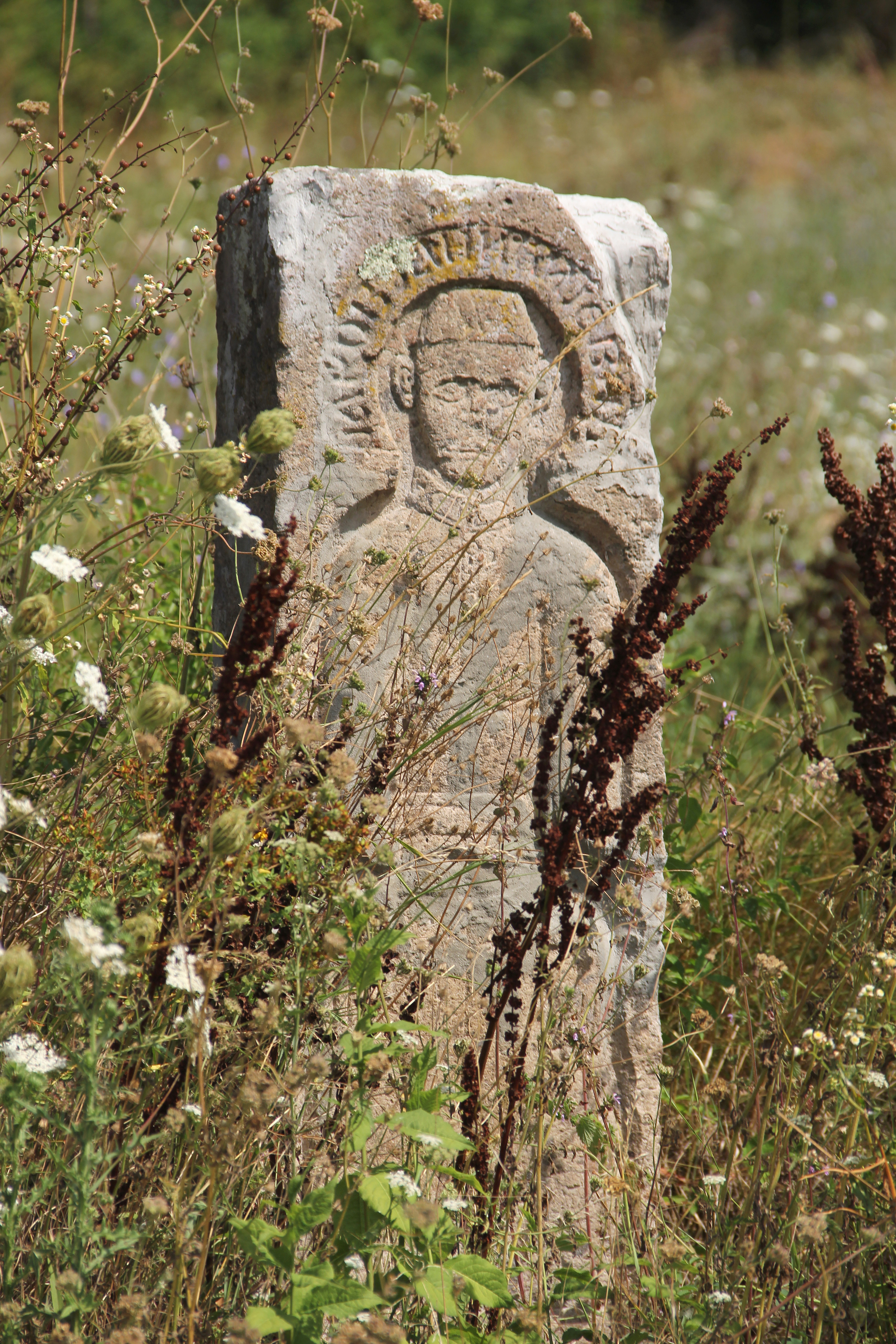 Roadside memorial to Jakov Janicijevic in the village of Davidovica (the municipality of Gornji Milanovac), Serbia.